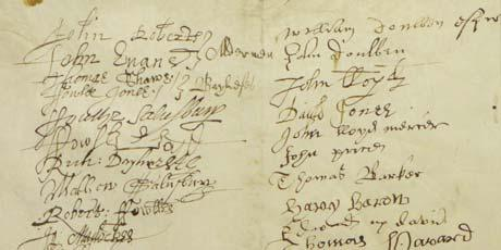 signatures from the Protestation Returns of 1641–1642